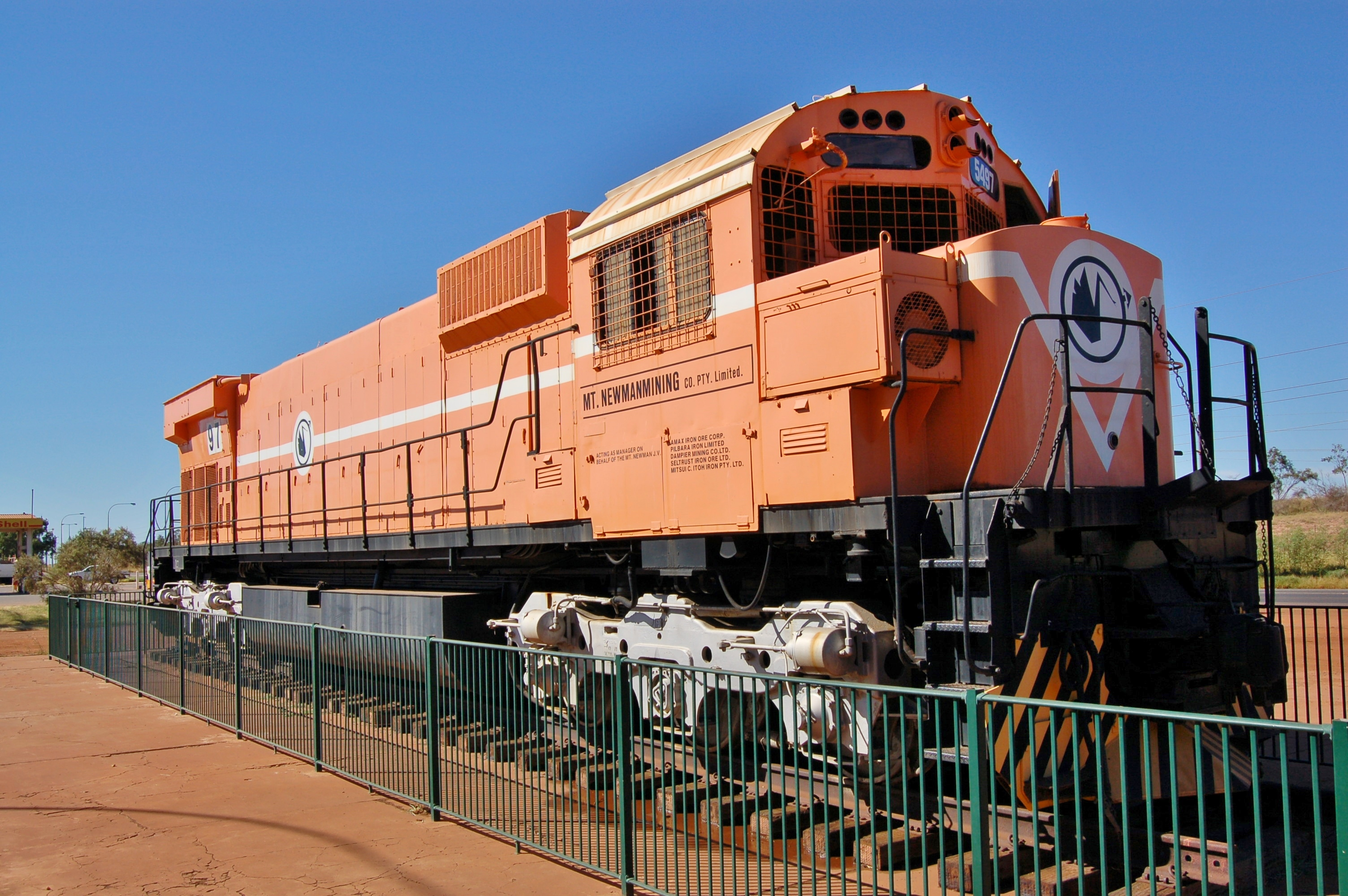 A cab end view of ex-Mt Newman Mining ALCO M636 2,684 kW Co-Co diesel-electric loco no. 5497, at the Don Rhodes Mining and Transport Museum, Wilson Street, Port Hedland, Western Australia. This locomotive was manufactured in 1975 by Commonwealth Engineering in New South Wales. Together with pairs of sister locomotives, it was used in the 1970s to haul trains of 144 ore cars carrying 17,000 tonnes of iron ore along the Mount Newman railway from Mt Whaleback to Port Hedland. Over time, regular train lengths and weights on this line were increased, with four or five M636 locomotives being used to haul them. (Source: the plaque adjacent to the exhibit.)